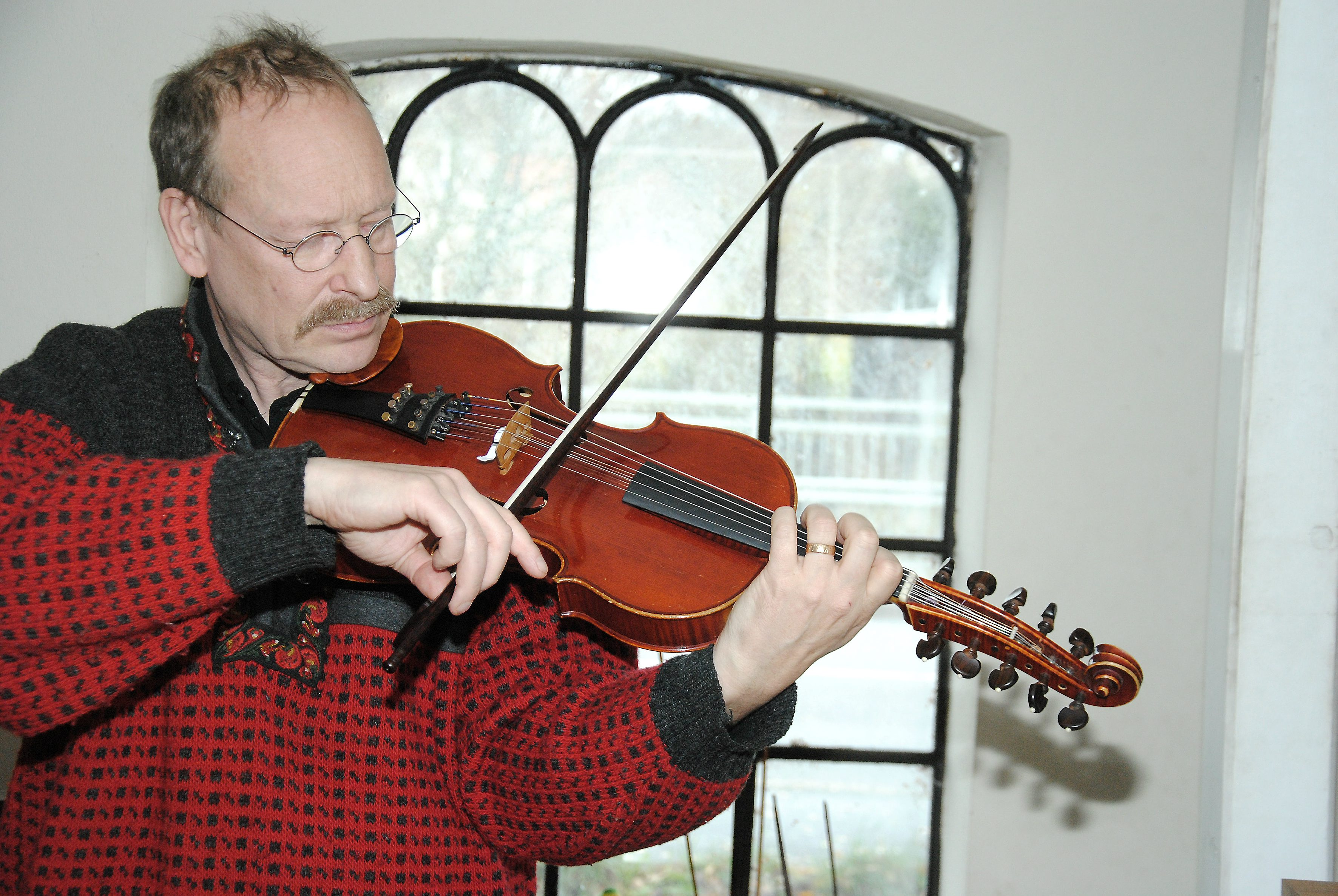 Mats Edén (1957– ) Swedish musician, photo taken in his home